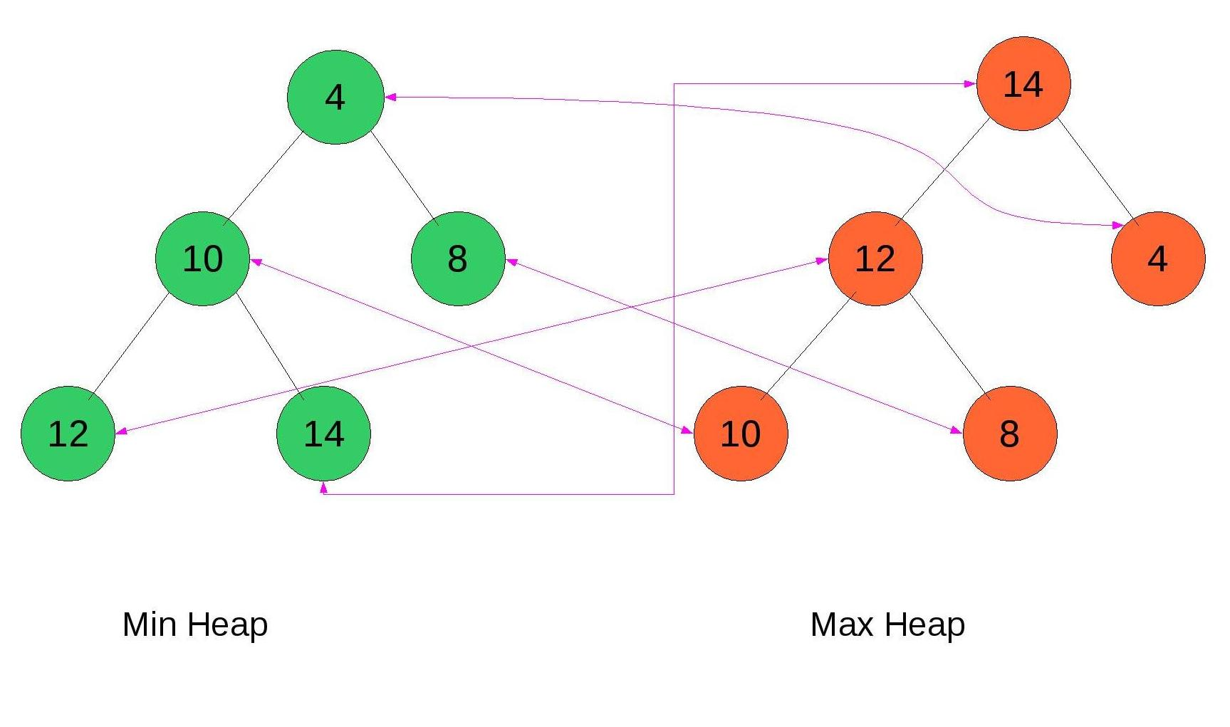 A method to implement Double ended priority queue(DEPQ)